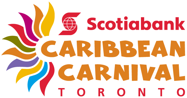 toronto caribbean carnival logo